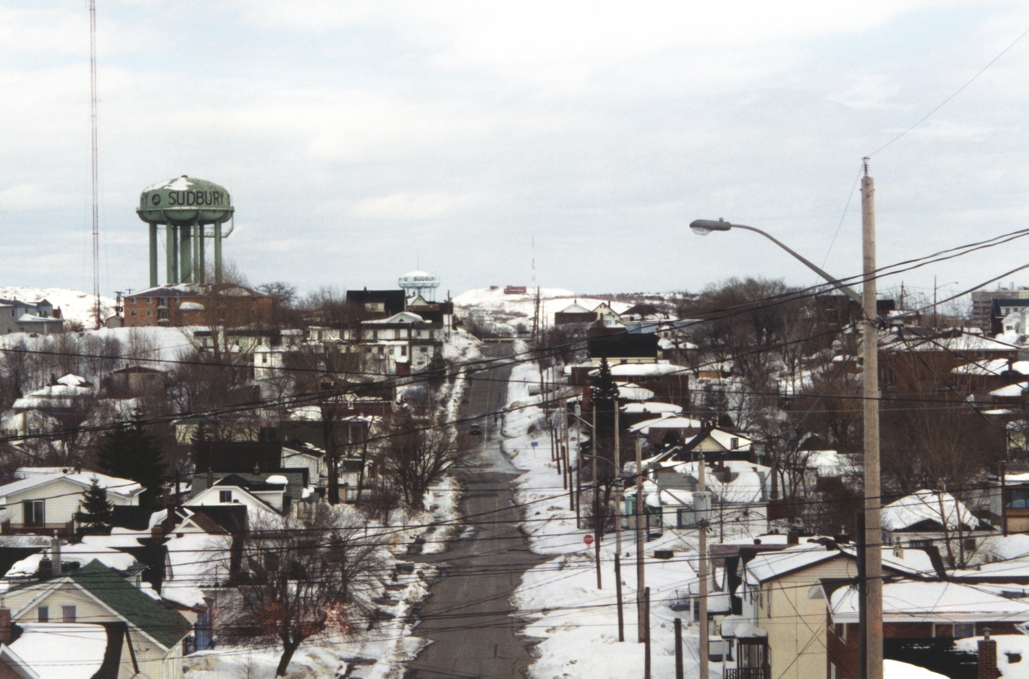 Sudbury, Ontario - Pine Street - Looking East - 1997 Ash Water Tower foreground - Pearl Water Tower background